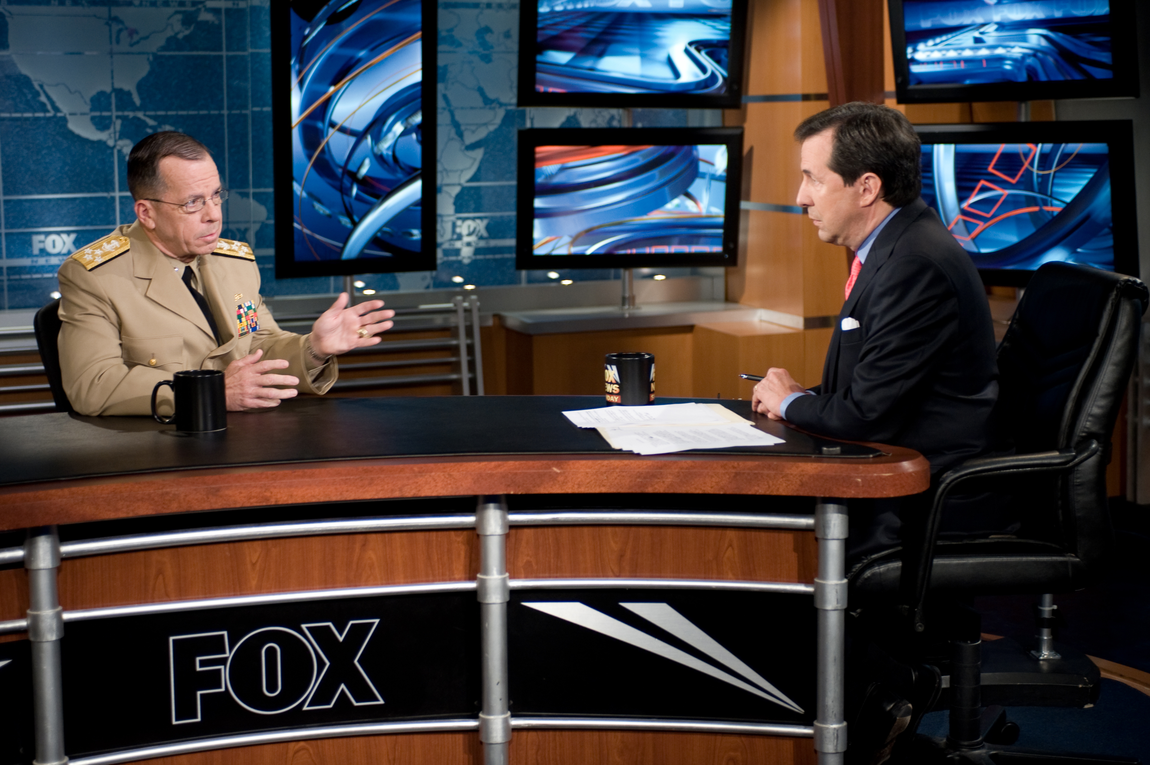 WASHINGTON (July 20, 2008) Adm. Mike Mullen, chairman of the Joint Chiefs of Staff, is interviewed by Chris Wallace host of Fox News Sunday. (U.S. Navy photo by Mass Communication Specialist 1st Class Chad J. McNeeley/Released)